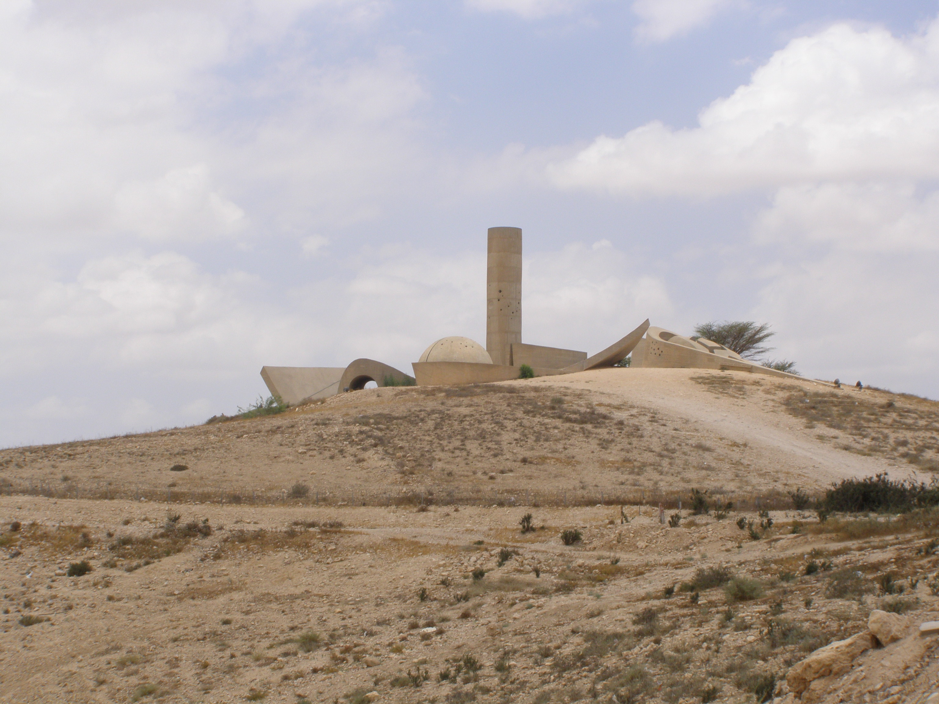 Beersheba, Monument to the Negev Brigade